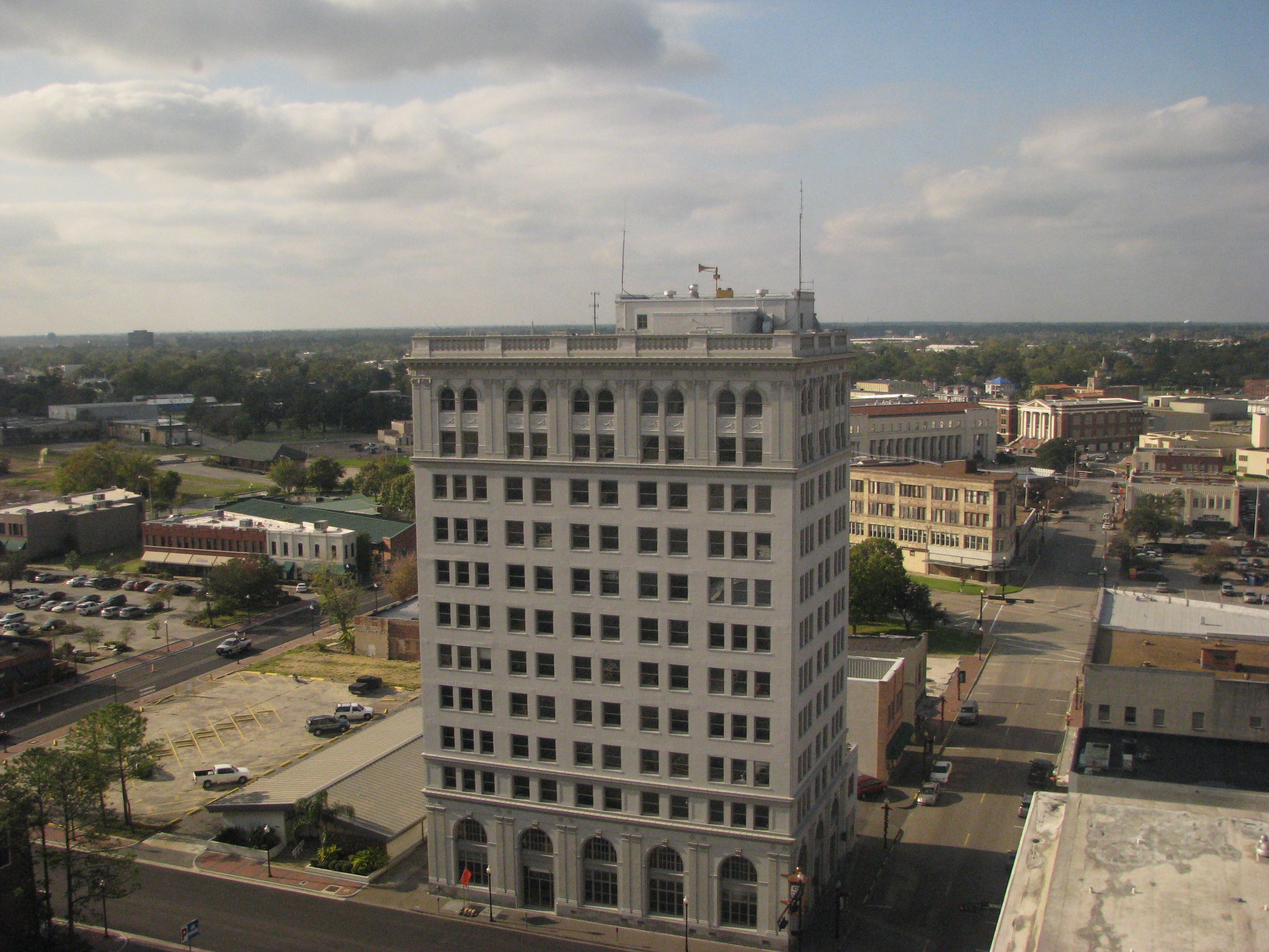 The Orleans Building